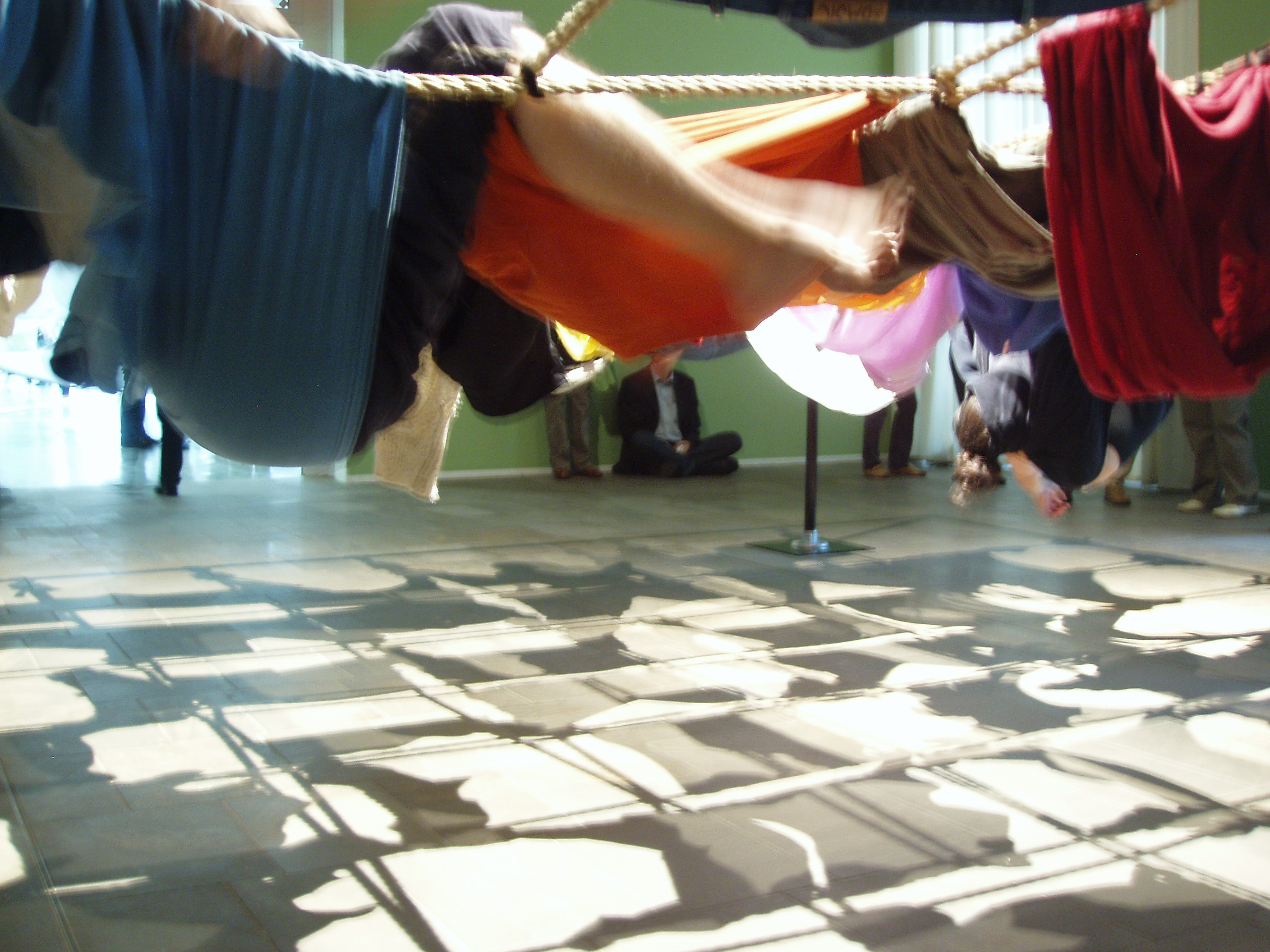 Documenta 12 Kassel 2007. Documenta 12 Kassel 2007 inside Fridericianum Trisha Brown, Floor Of The Forest, 2007